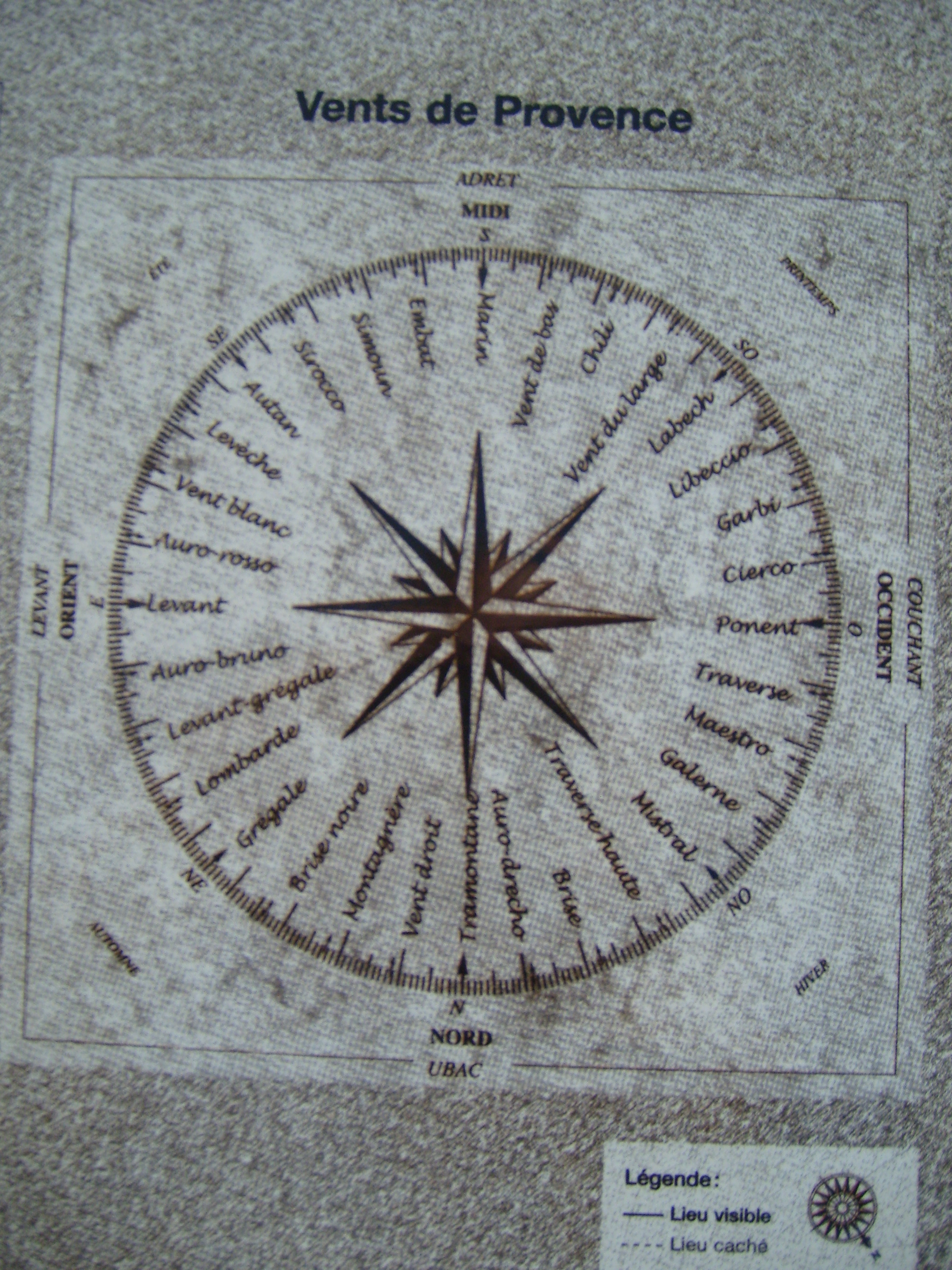 Photo of compass rose of Winds of Provence posted on coastal path of Toulon Harbor.